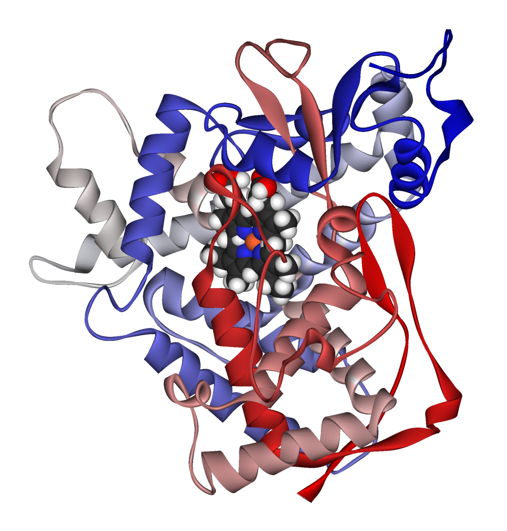 Ribbon diagram of human cytochrome P450 isozyme 2C9. Heme group visible at center.Created using Accelrys DS Visualizer Pro 1.7 and the GIMP.